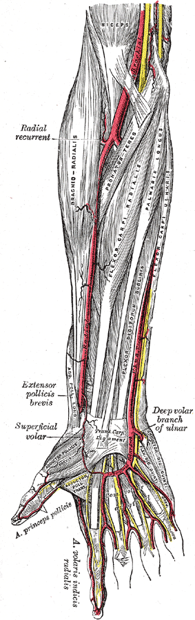 The image shows some of the muscles and arteries of the right forearm and hand, including the superficial palmar arch (titled Superficial Volar Arch in this picture, which is an alternative term) and the common palmar digital arteries branching off of it. The unlabelled yellow lines are nerves. Palmar aspect with the proximal part (elbow) at the top and the distal part (hand) at the bottom. Unfortunately, the labels in the picture are not very legible because of the low resolution. To aid future improvements of the image, this is a list of all labels included in the image. Some of these terms are outdated/deprecated: Biceps [muscle] Brachial [artery] Radial recurrent [artery] Brachio-radialis [muscle] Pronator teres [muscle] Flexor carpi radialis [muscle] Palmaris longus [muscle] Flexor digitorum sublimis [muscle] Flexor carpi ulnaris [muscle] Radial [artery] Ulnar [artery] Extensor pollicis brevis [muscle] Abductor pollicis longus [muscle] Superficial volar (arch) [artery] (the thinner and thicker parts of the arch are labelled separately; see below) Transverse carpal ligament Deep volar branch of ulnar [artery] Abductor pollicis brevis [muscle] Adductor pollicis transversus [muscle] Superficial volar arch [artery] (the thinner and thicker parts of the arch are labelled separately; see above) Flexor digiti quinti brevis [muscle] Abductor digiti quinti [muscle] Arteria princeps pollicis Common volar digital [arteries] Arteria volaris indicis radialis